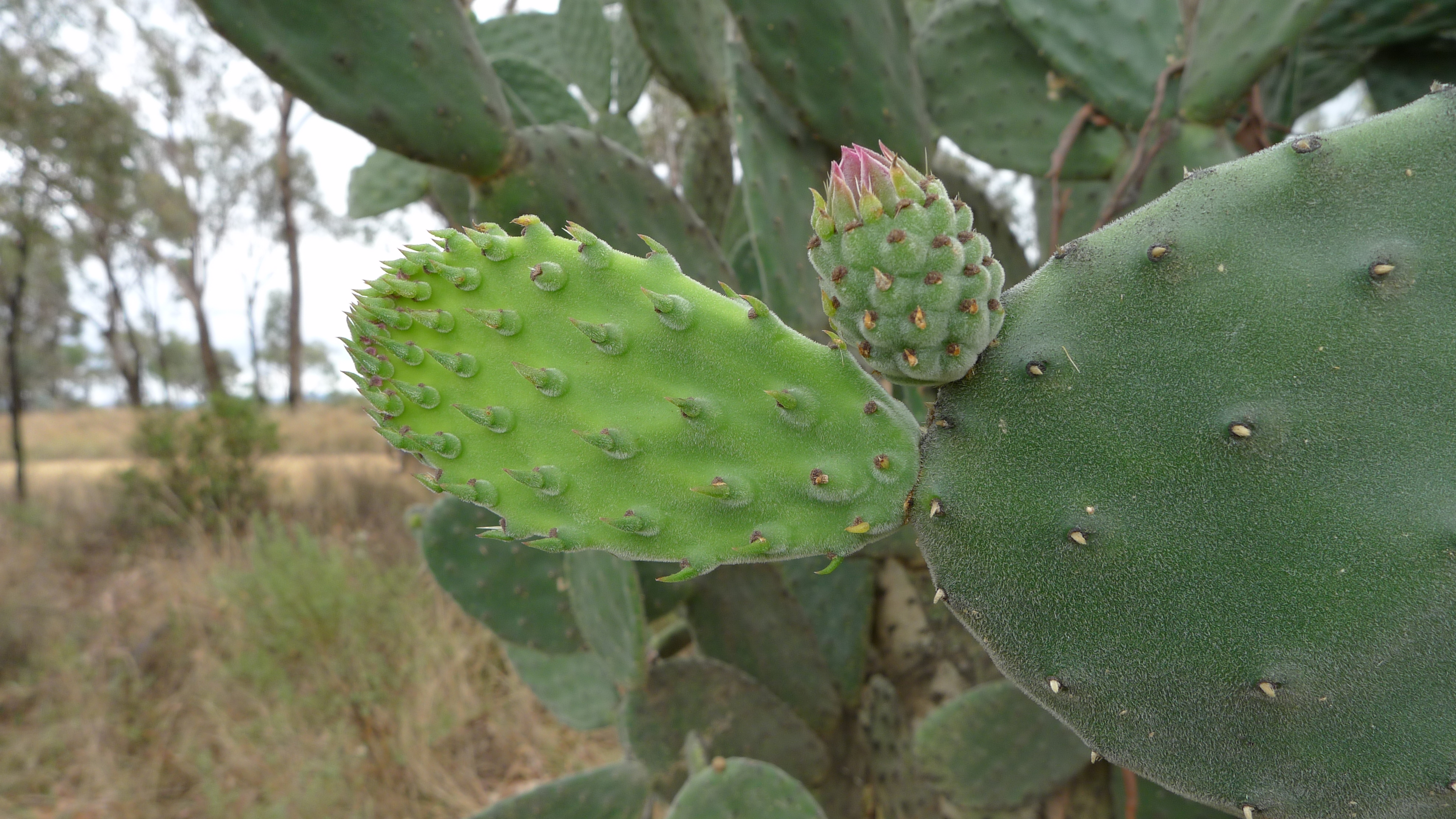 Young cladode and bud on old cladode of Velvet Tree Pear, Opuntia tomentosa. West of Emmaville, NSW Australia, November 2013.